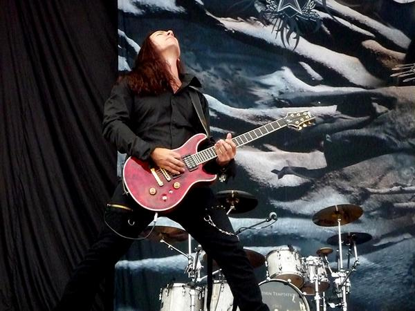 Thomas Youngblood live in Assen 2008